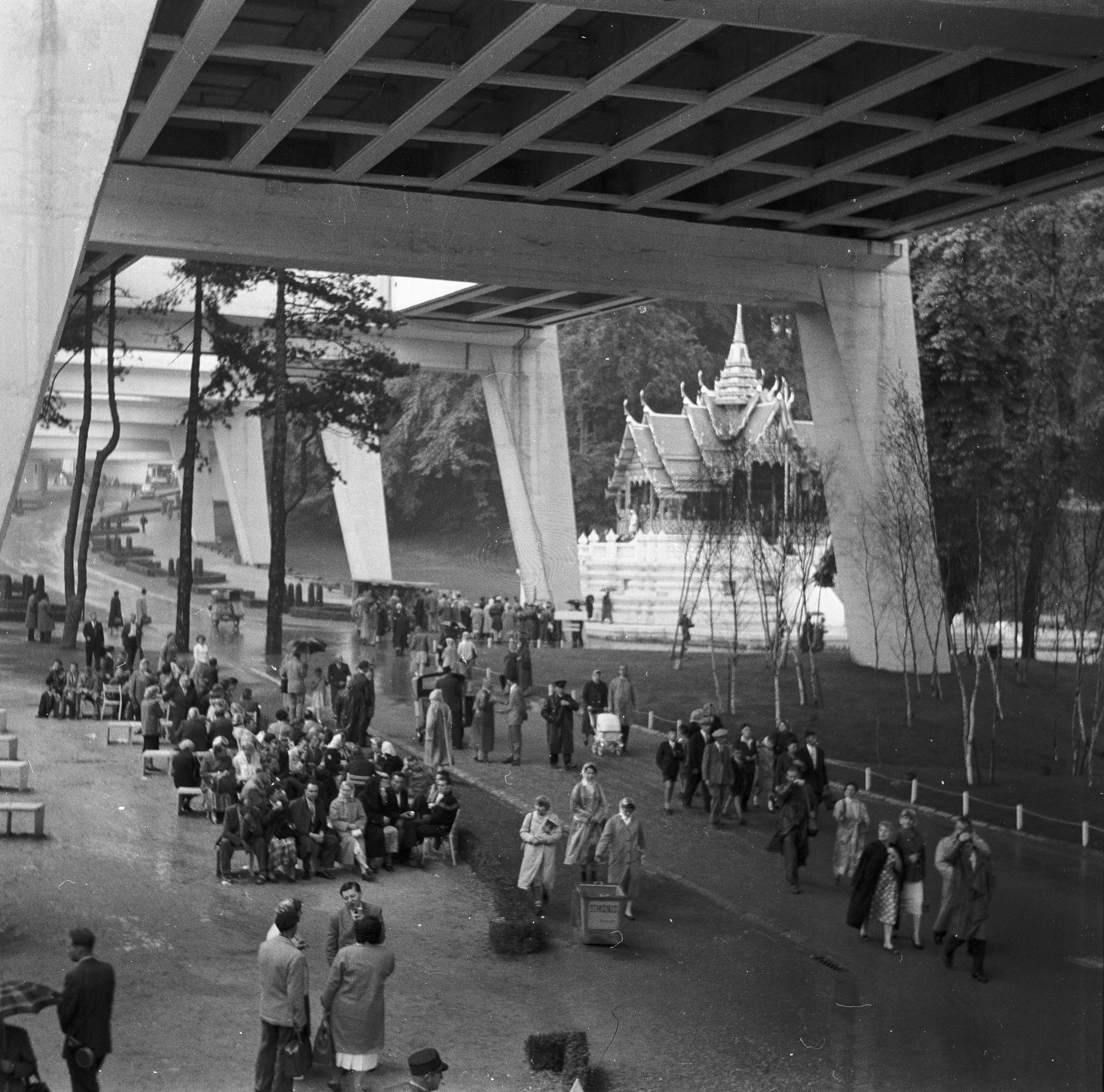 Expo 1958 bridge and road. In the background the building of Thailand